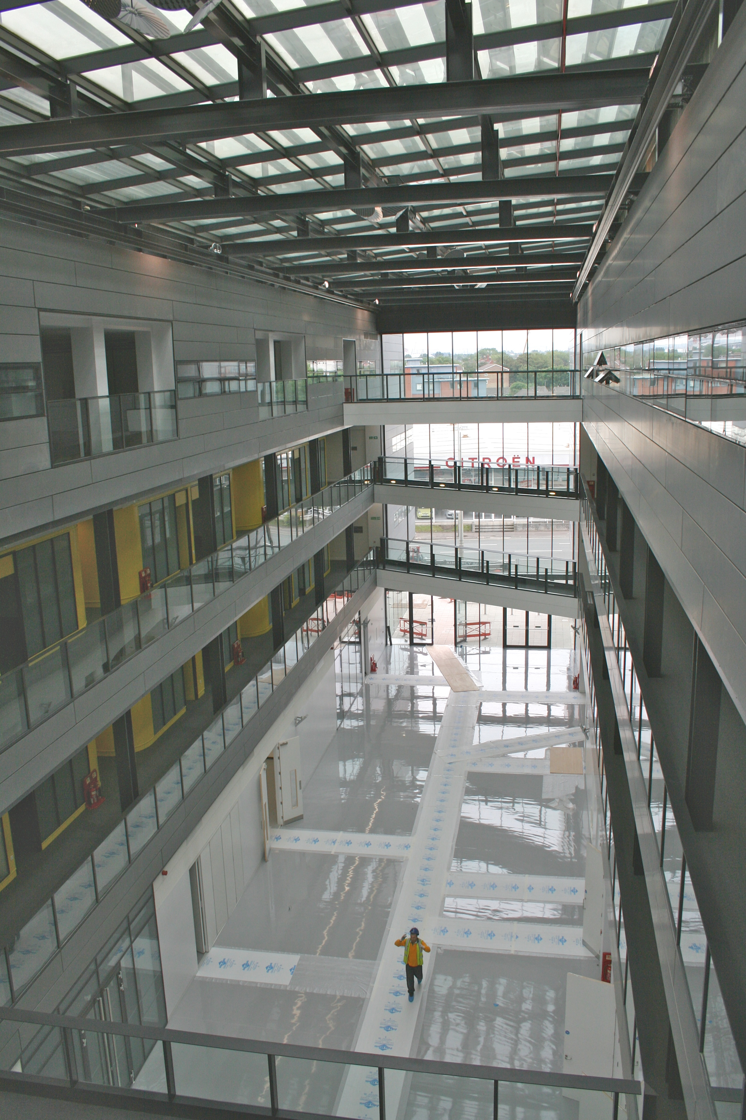 Alan Turing Building, University of Manchester.